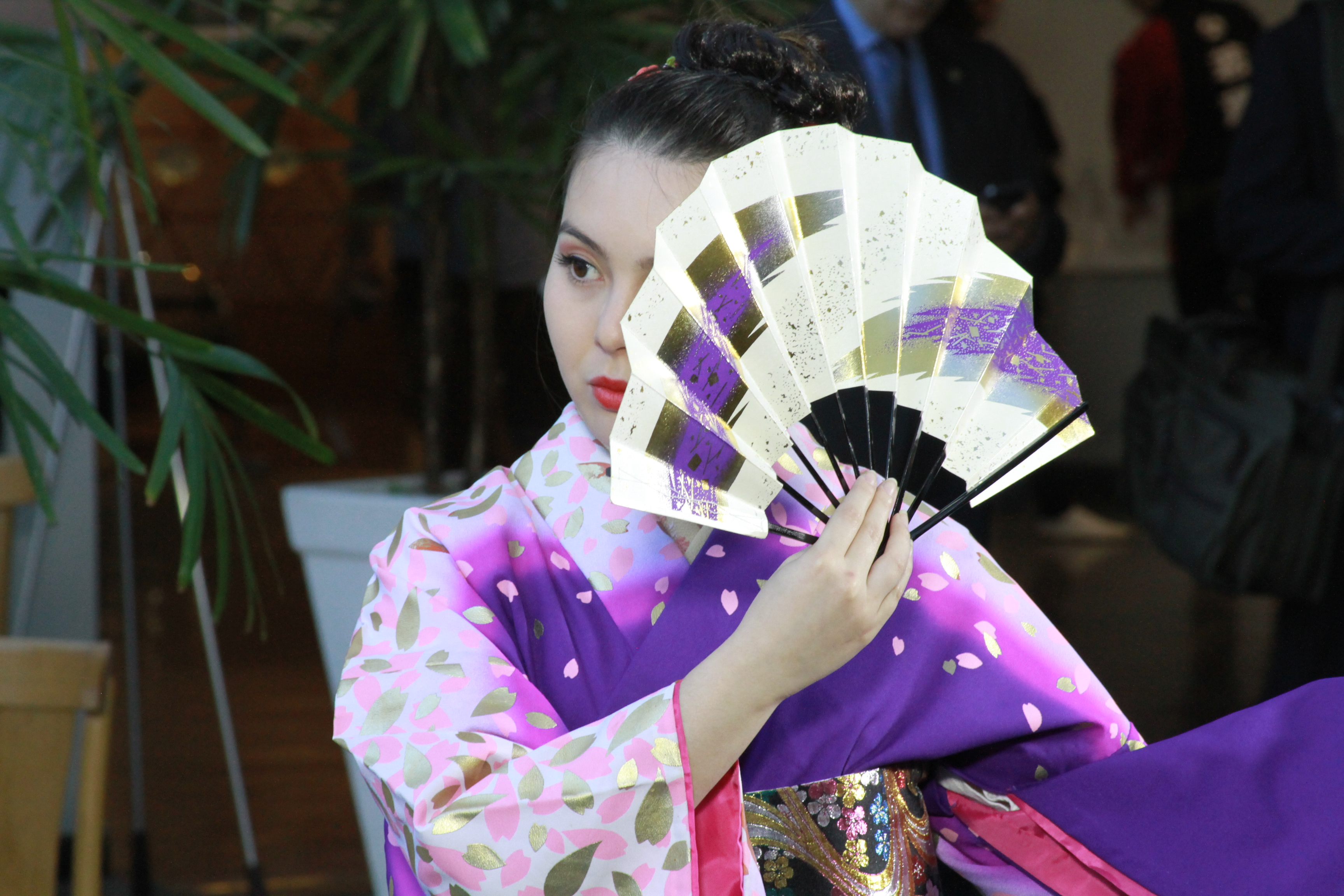 Foto: Kleyton Presidente/Alep